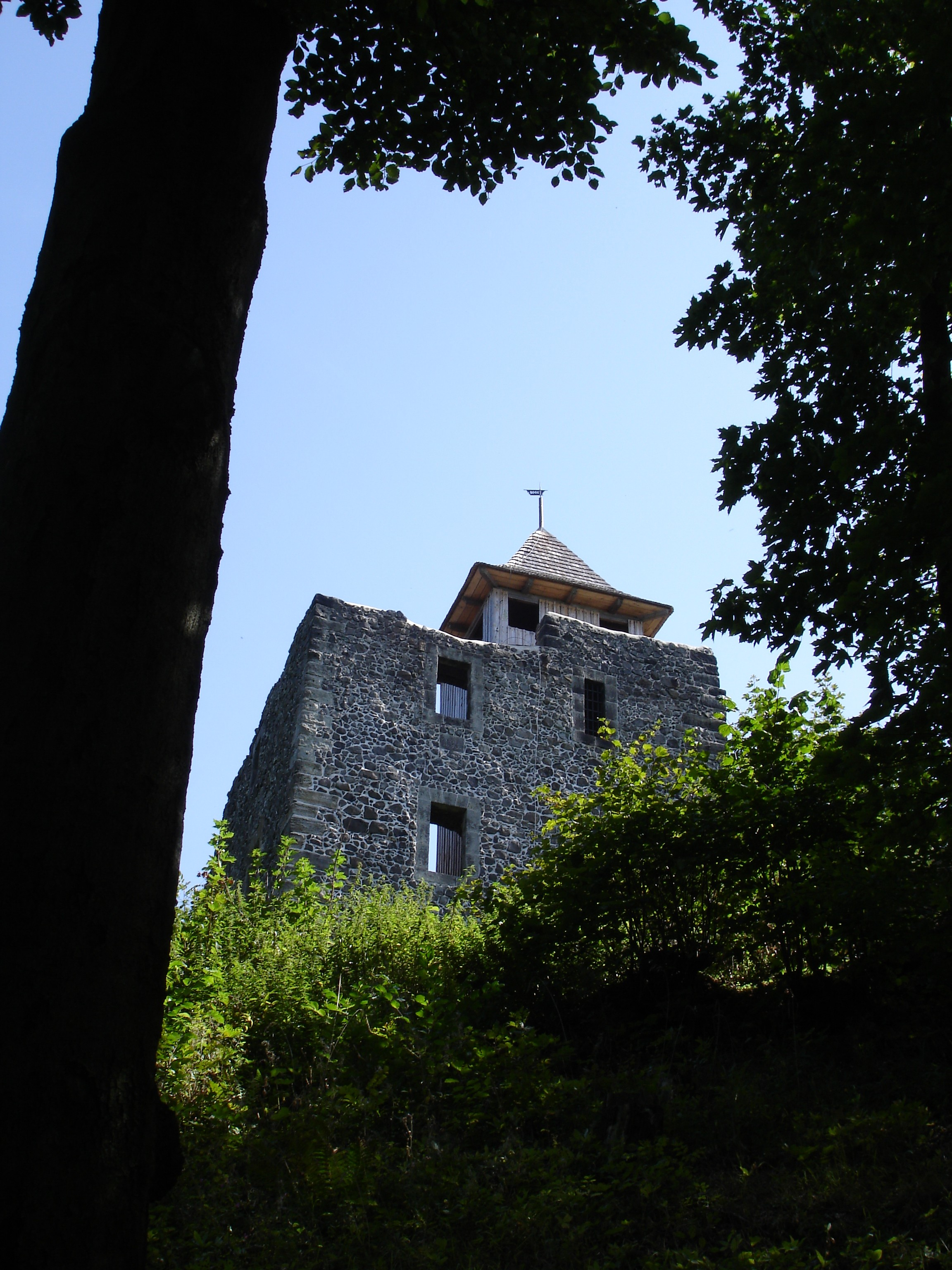 castle Kamenický hrad in Lužické hory (Lusatian mountains), Czech Republic